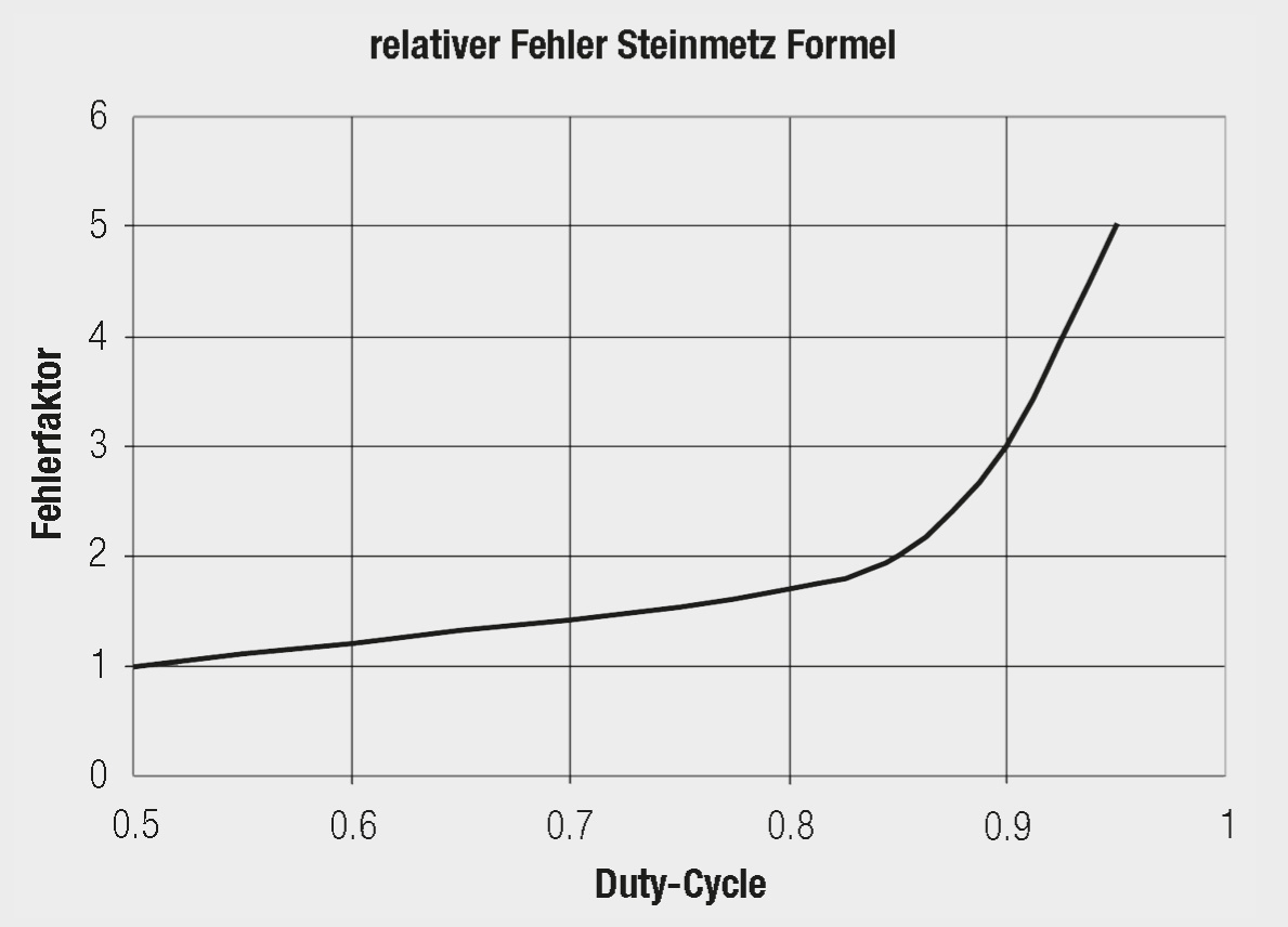 Relative error factor of the Steinmetz-Formula